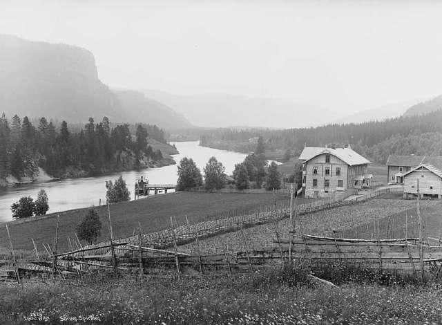 Sørum with the old steamboat "Bægna", see also Sørum (Sør-Aurdal)